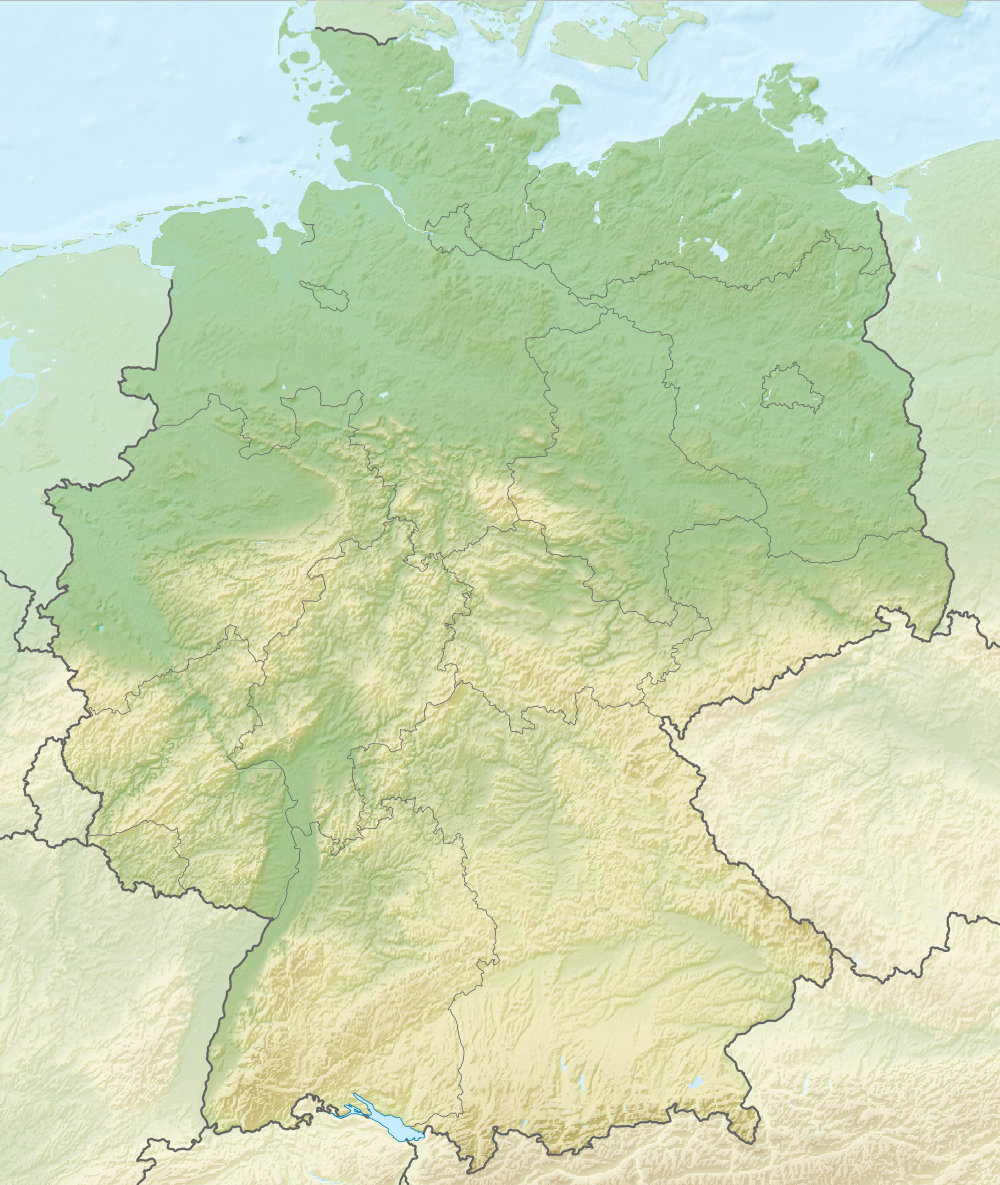 Relief map of Germany Equirectangular projection, N/S stretching 150 %. Geographic limits of the map: N: 55.1° N S: 47.2° N W: 5.5° E E: 15.5° E